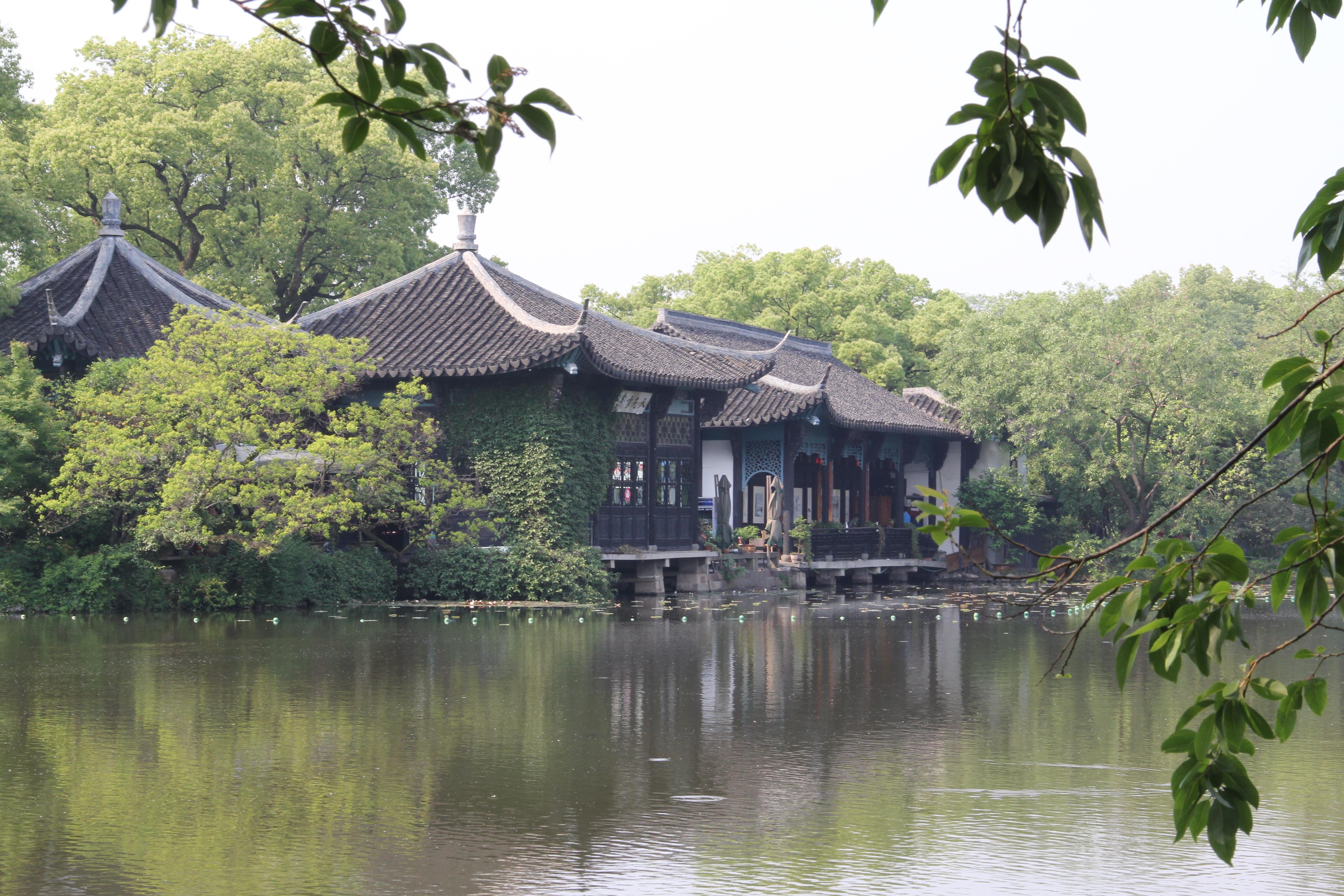 Temple West Lake Hangzhou